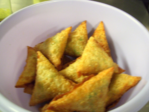 A plate of Somali sambusas (samosas).